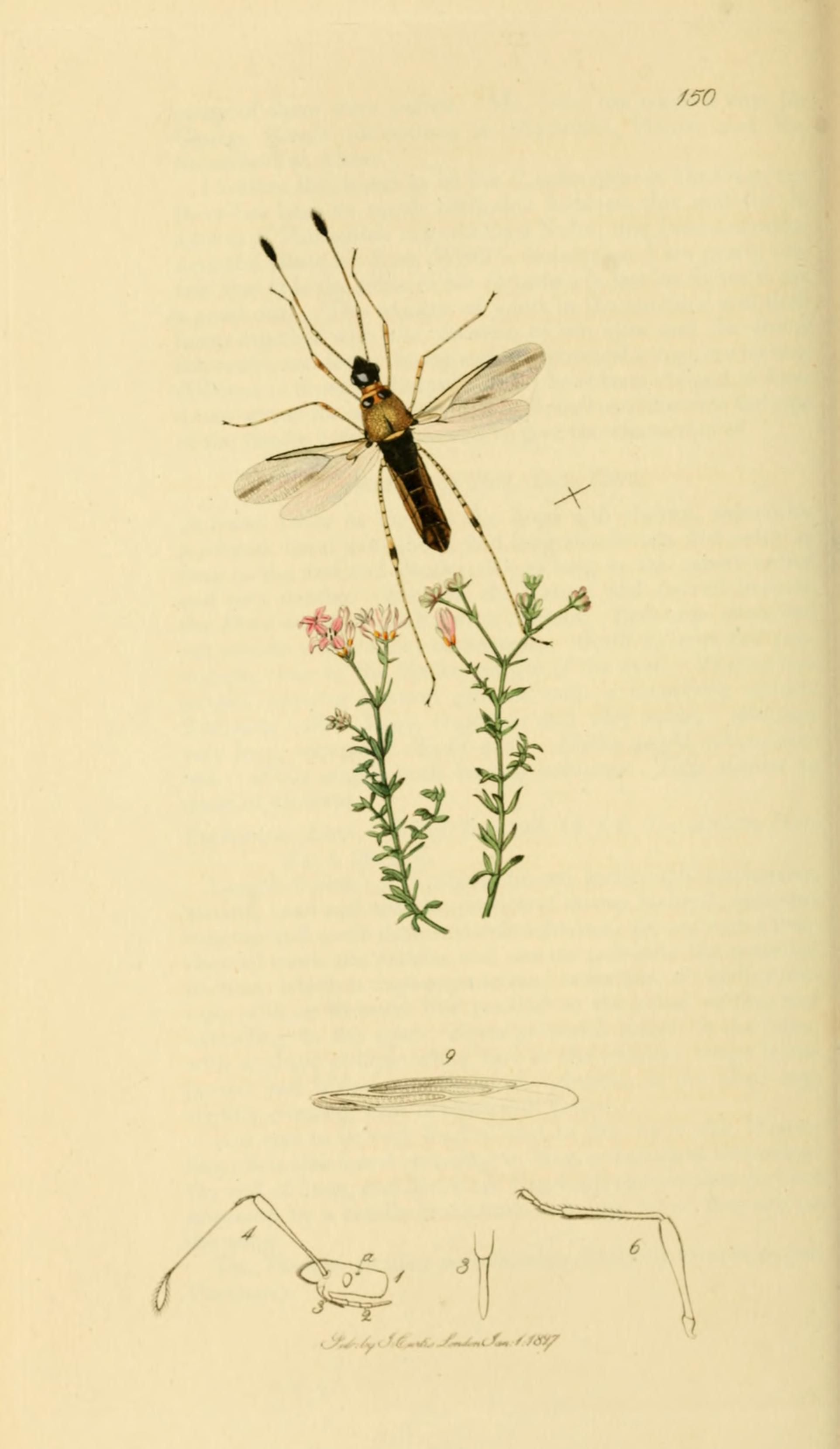 John Curtis British Entomology (1824-1840) Folio 150 Neides elegans Synonym of Gampsocoris punctipes the Elegant Stilt-bug. The plant is Asperula cynanchica (Small Woodroof)